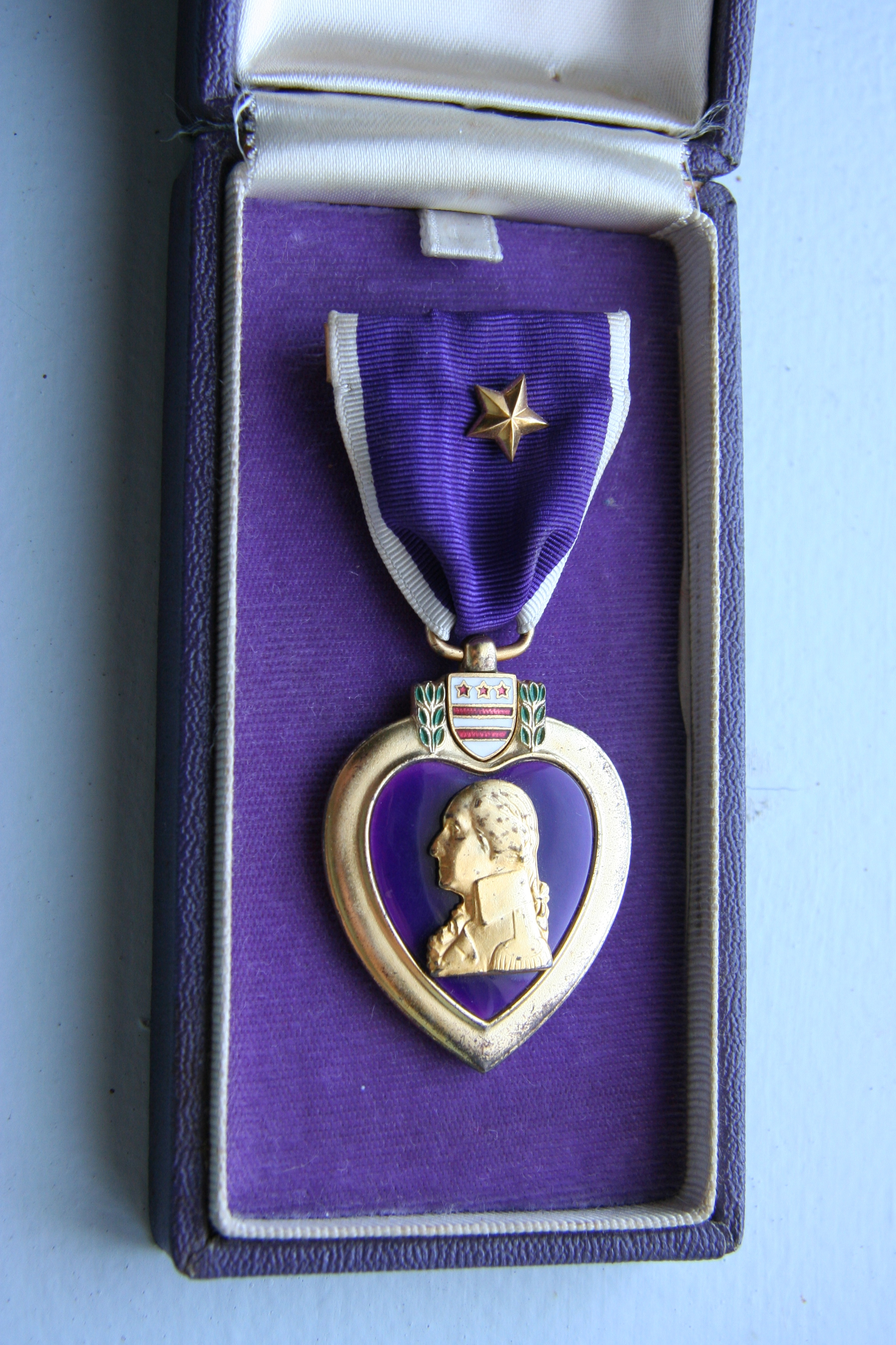 Purple Heart decoration in presentation case, awarded to a United States Army soldier in World War II